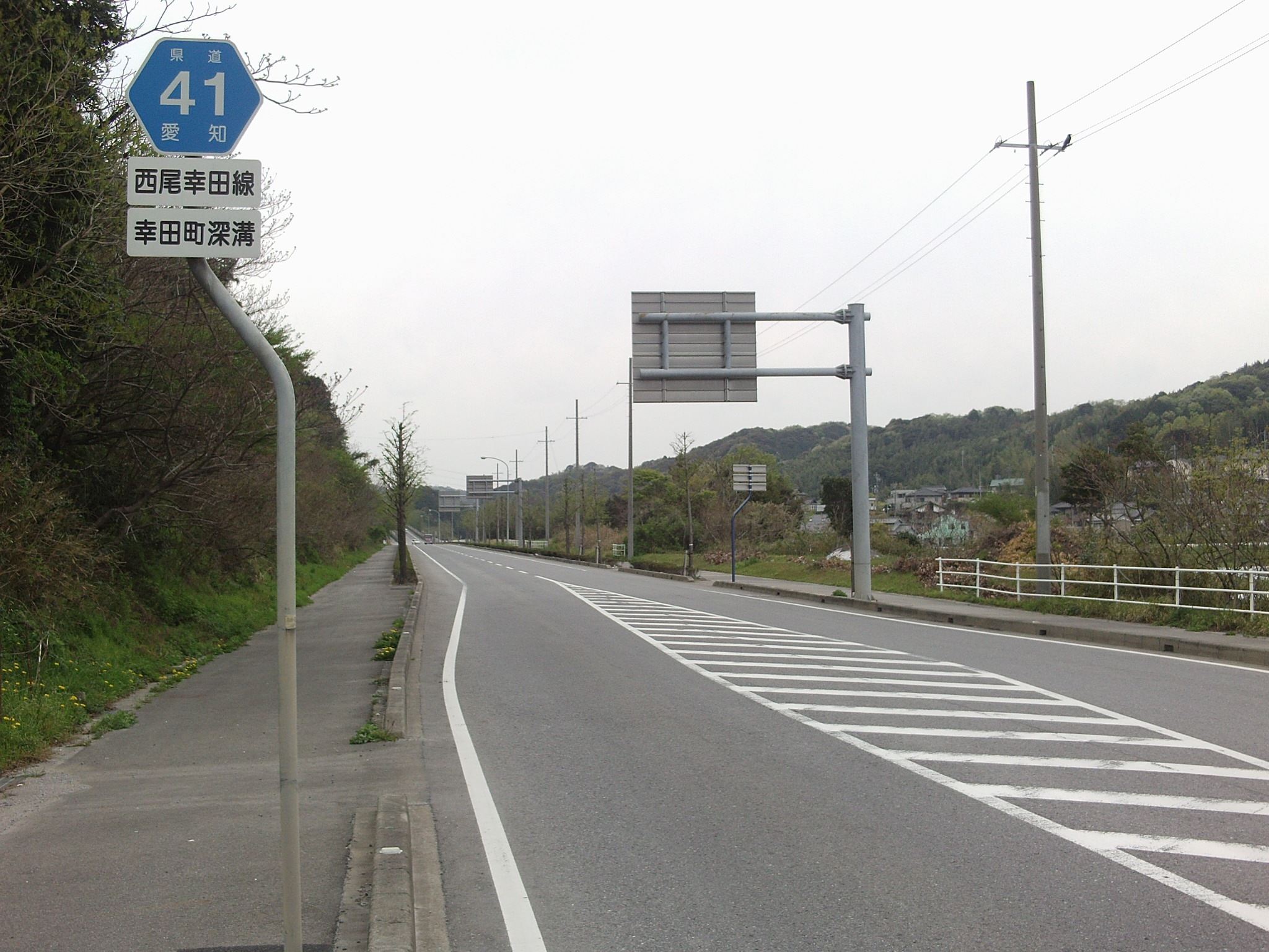 The Aichi Prefectural Road Route 41 in Fukozu, Kota Town